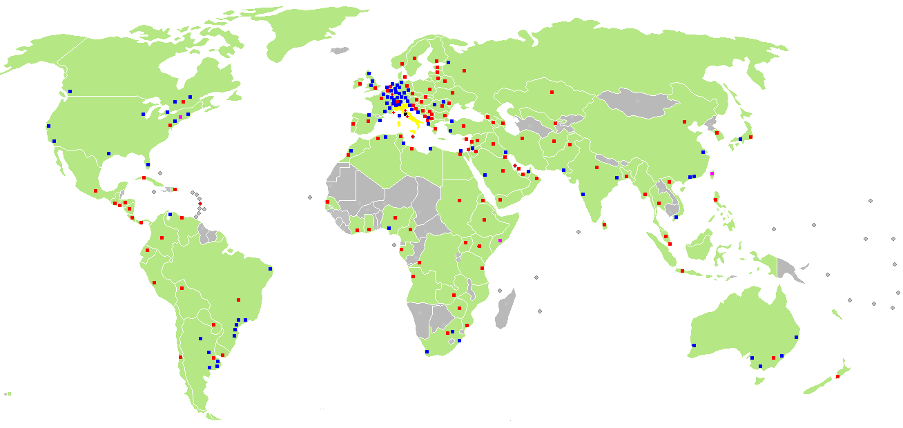 diplomatic missions of Italy